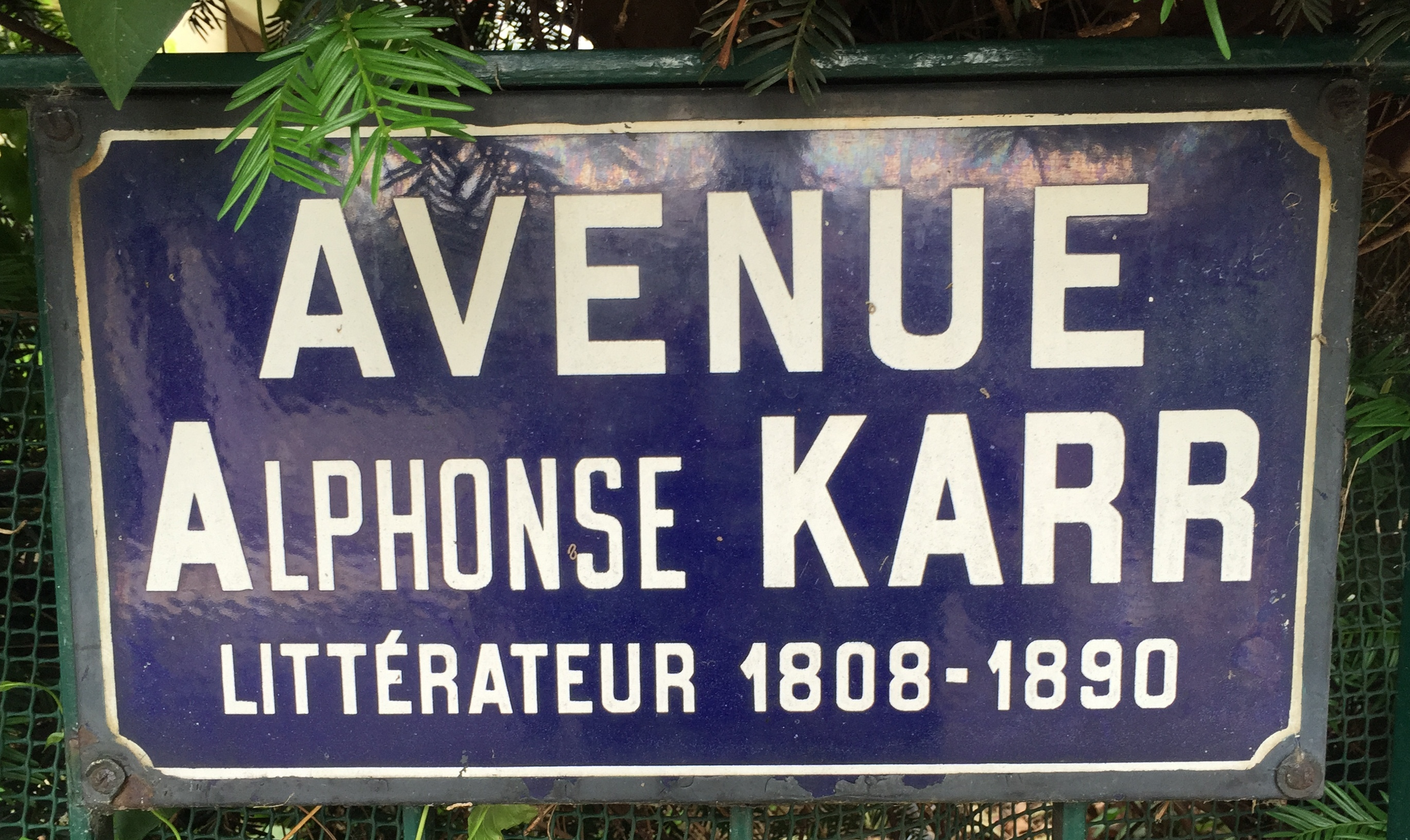 This photograph was taken with an iPhone 6